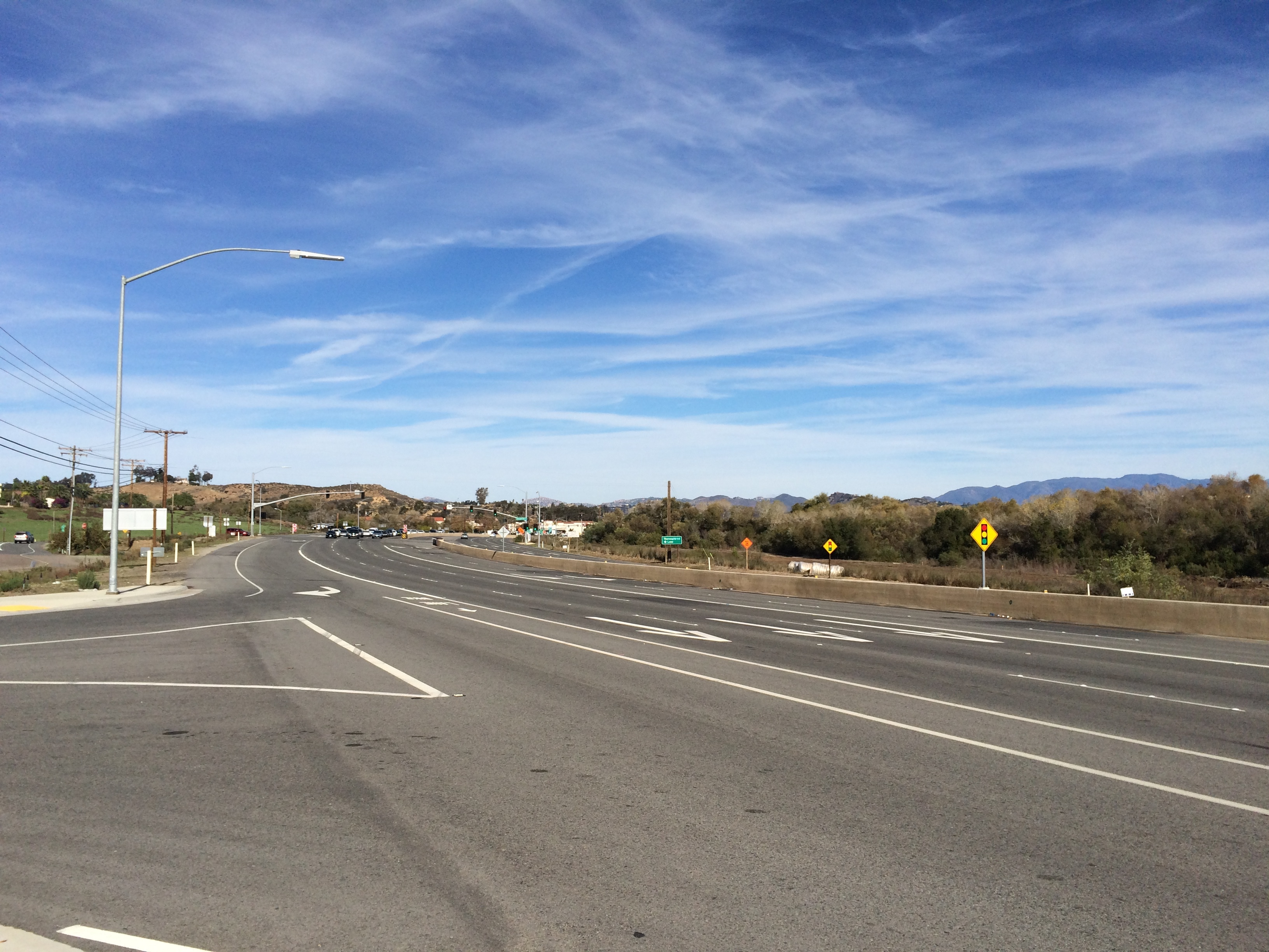 State Route 76 in Bonsall